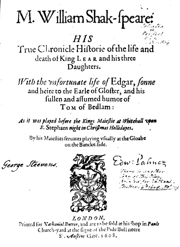 Title page of the first edition of King Lear (1608) by William Shakespeare. The handwritten words are the signatures of the book's various owners.